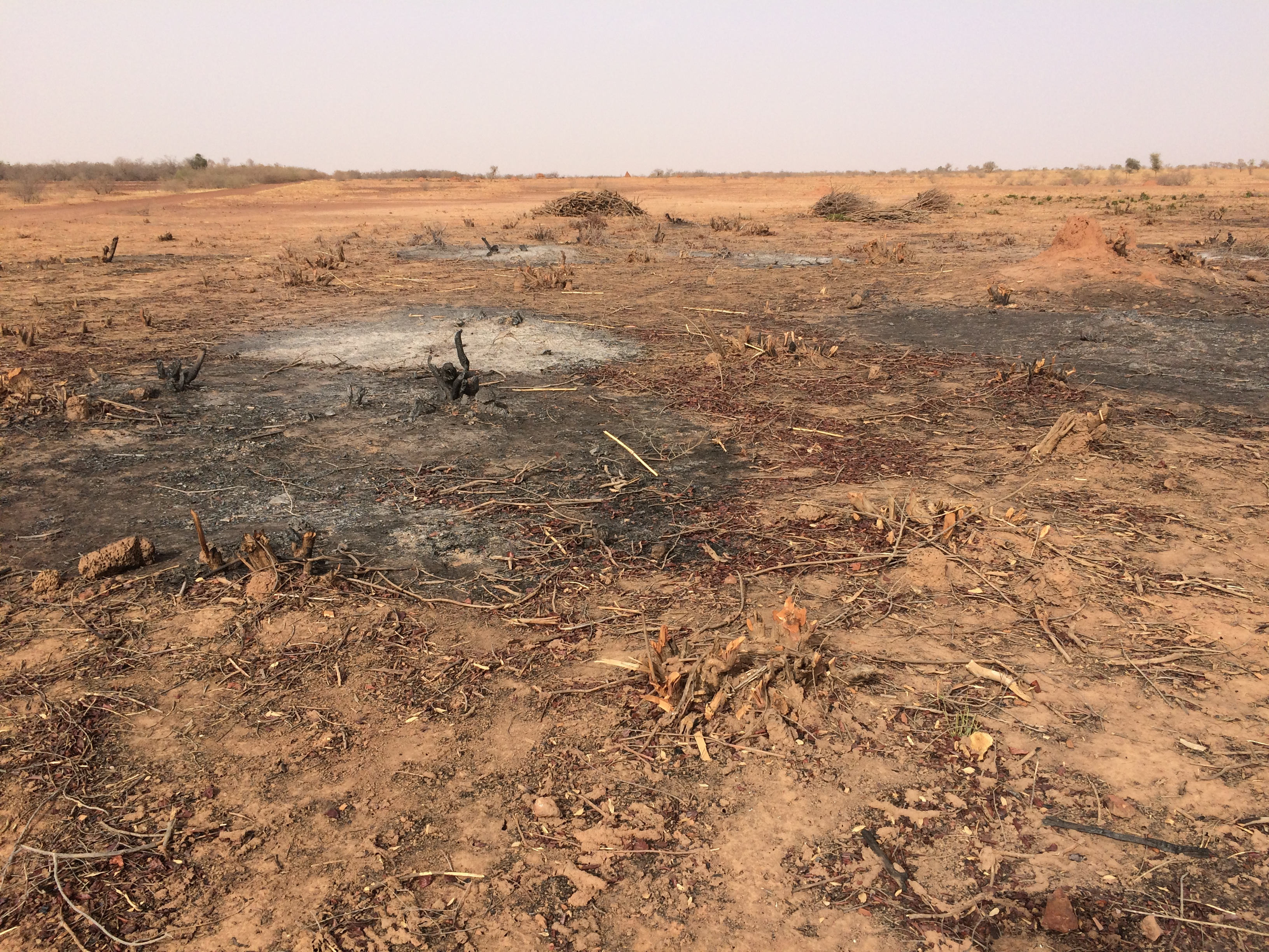 A tiger bush area in Niger, cut down for firewood and partially burned (Dantchandou commune, Kollo department, Tillabéri region).